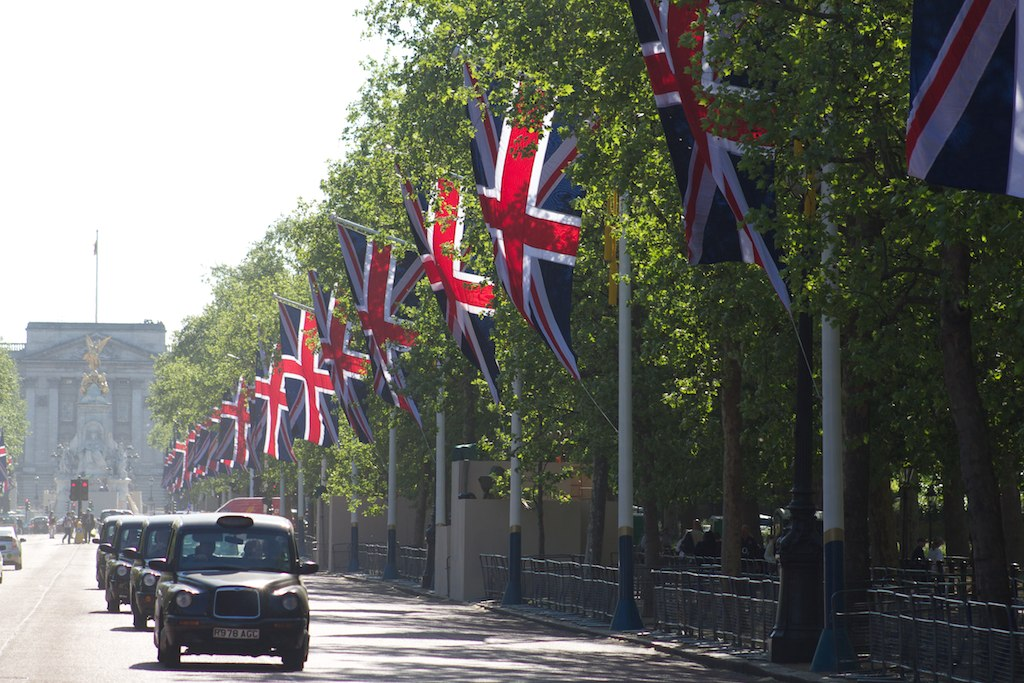 The Mall decorated for the Wedding of Prince William of Wales and Kate Middleton